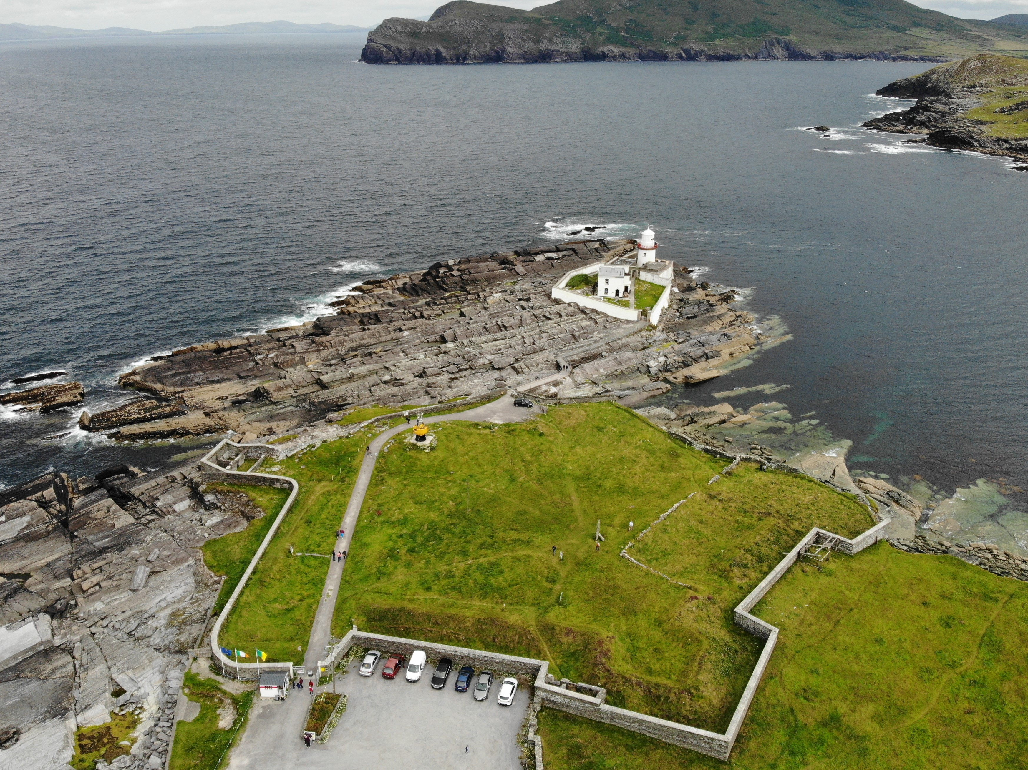 Aerial photo of lighthouse and surrounding fortifications.